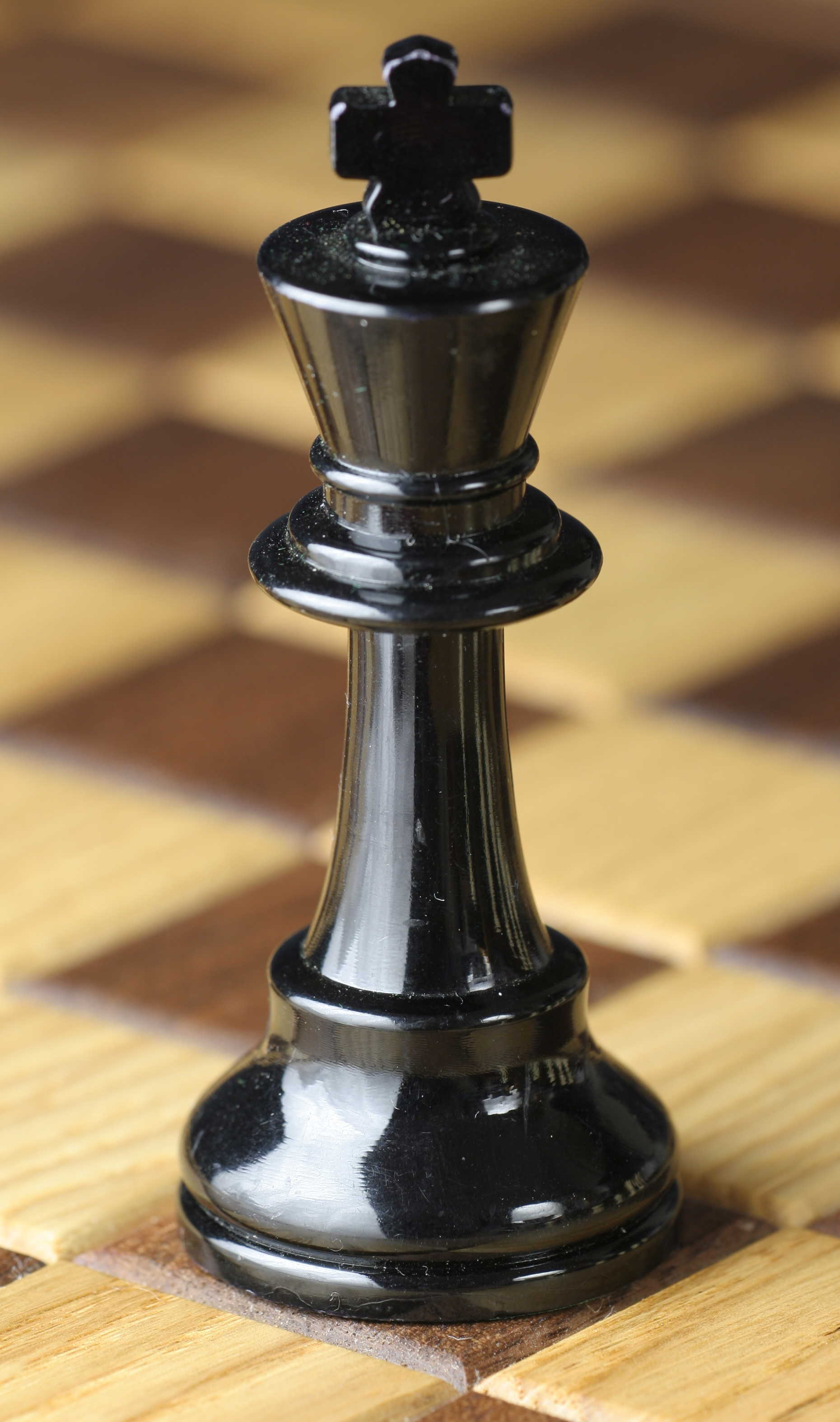 Chess piece - Black king, Staunton design